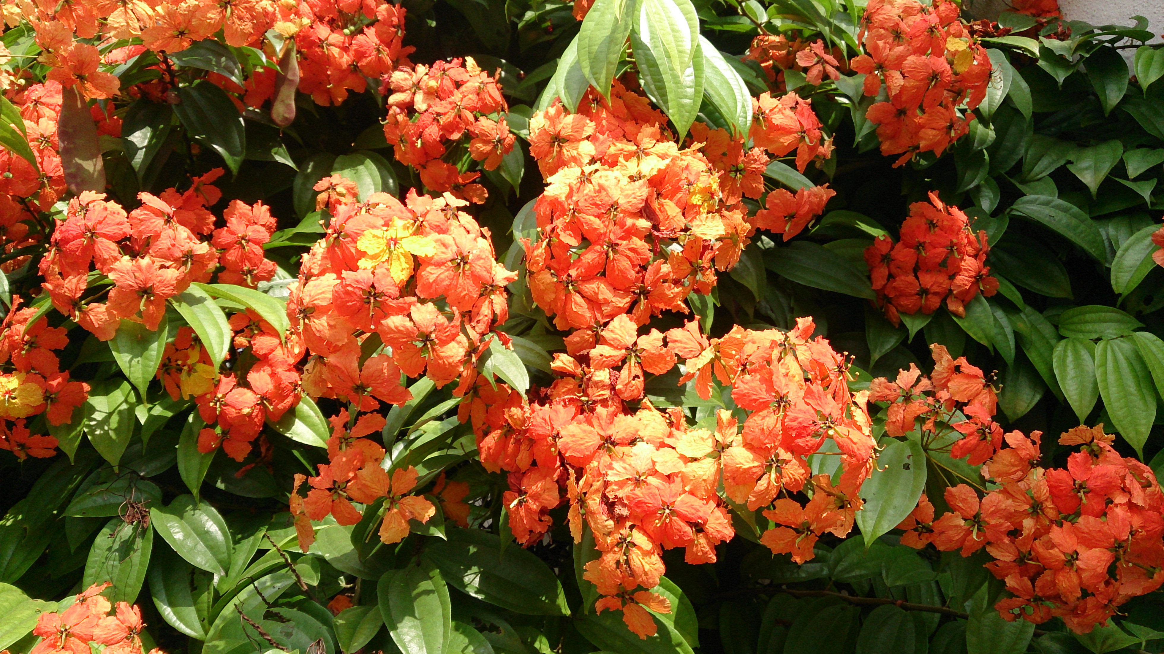 Bauhinia kockiana. Common name: Kock's Bauhinia, Red Trailing Bauhinia, Climbing Bauhinia. 素心花藤 (su xin hua teng), In malay: Katup-katup or Ketup-ketup